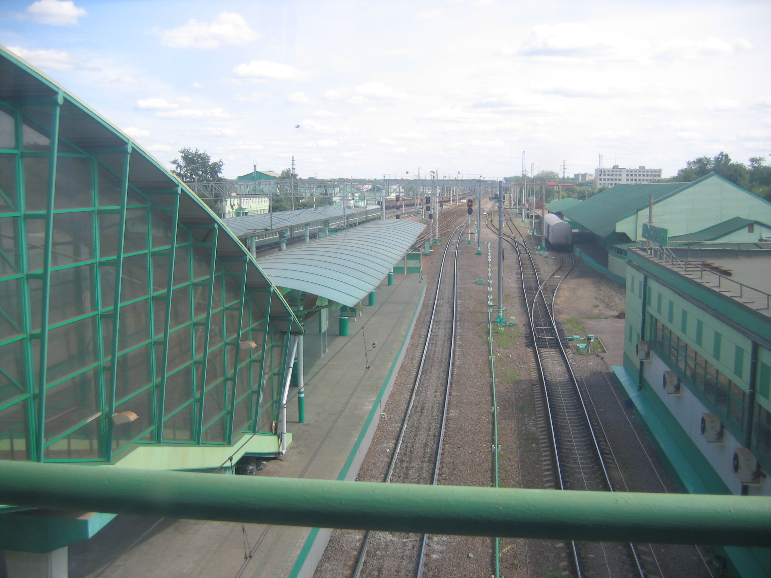 Lyubertsy-1 railway station in Lyubertsy, Russia